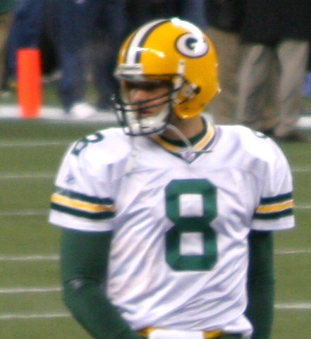 Todd Bouman, backup quarterback for Green Bay Packers